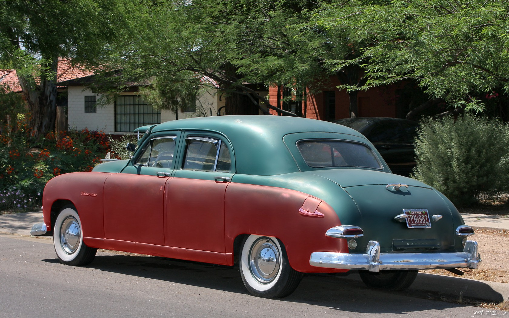 1949 Kaiser, "pontoon" design element highlighted.